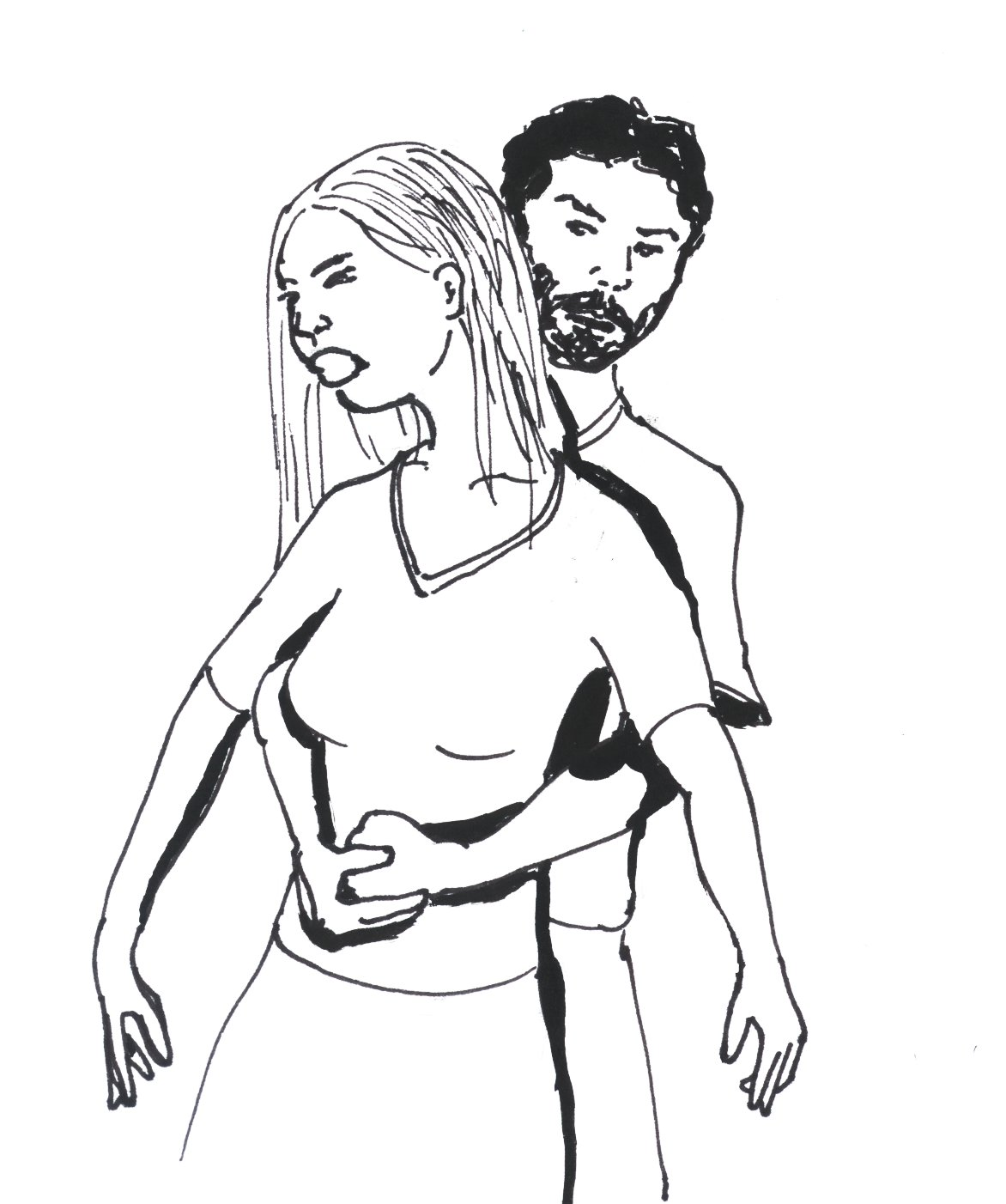 Abdominal thrusts (also called the Heimlich maneuver or Heimlich manoeuvre